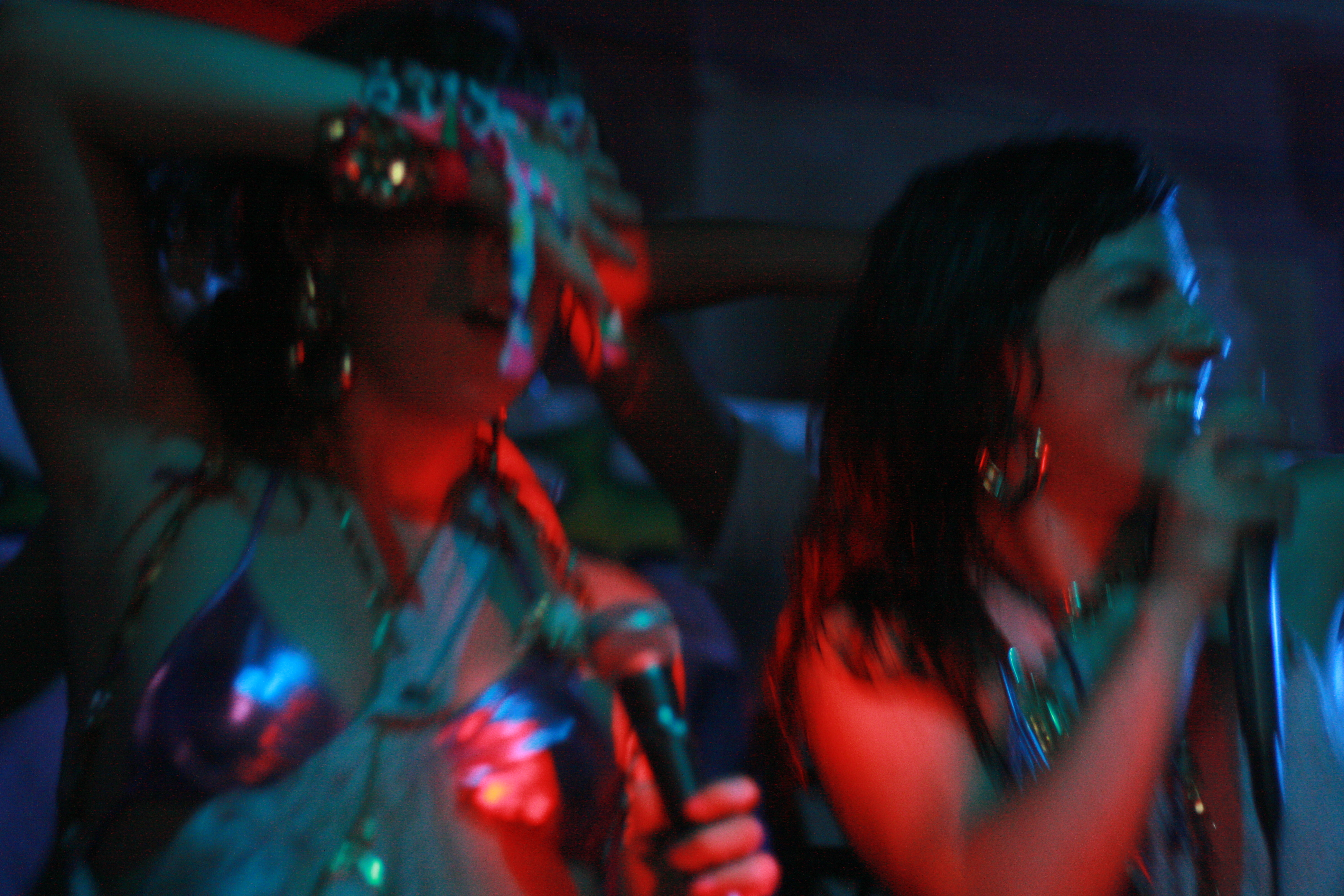 Debbie and Daphne D of Avenue D at their last ever performance.